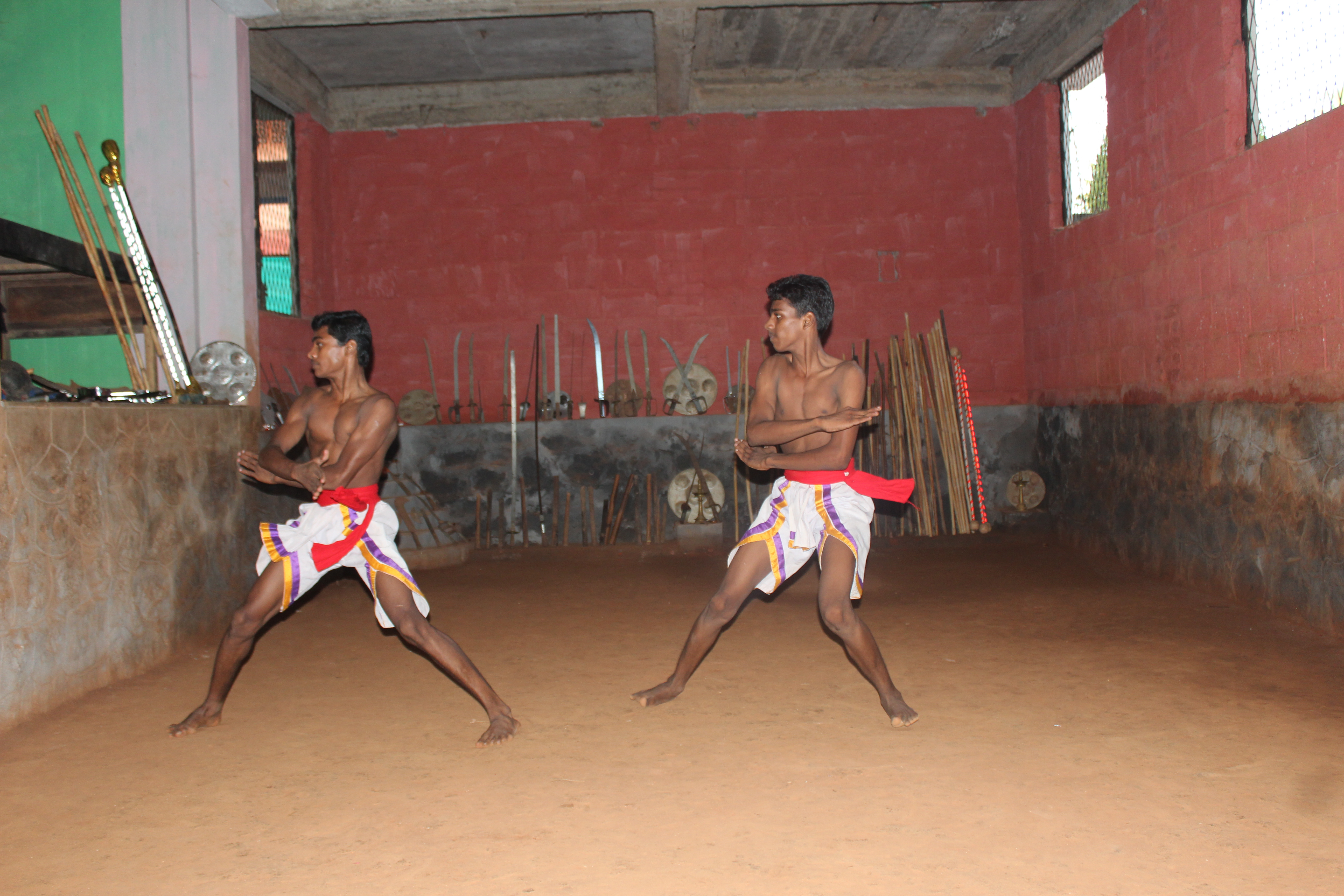 Kalaripayattu performance 1